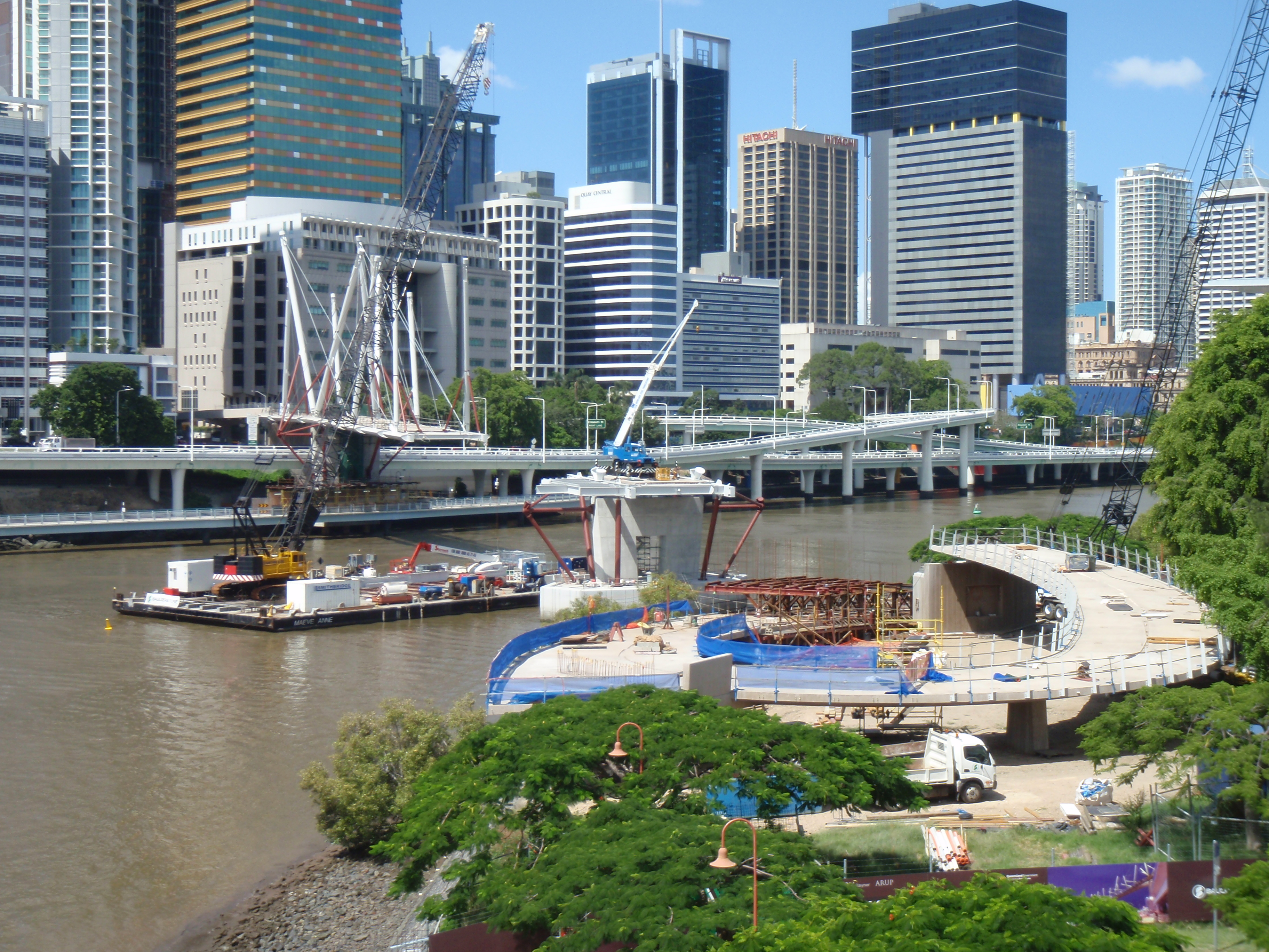 A view from the William Jolly bridge of the south end of the Kurilpa Bridge construction